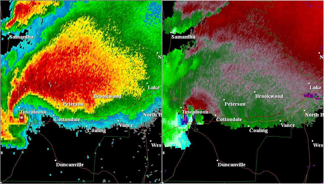 A radar image of the supercell that produced the 2011 Tuscaloosa tornado. Base reflectivity is on the left and storm relatively velocity on the right. The area of high reflectivity just to the south of Tuscaloosa label is debris lofted into the air by the EF4 tornado.